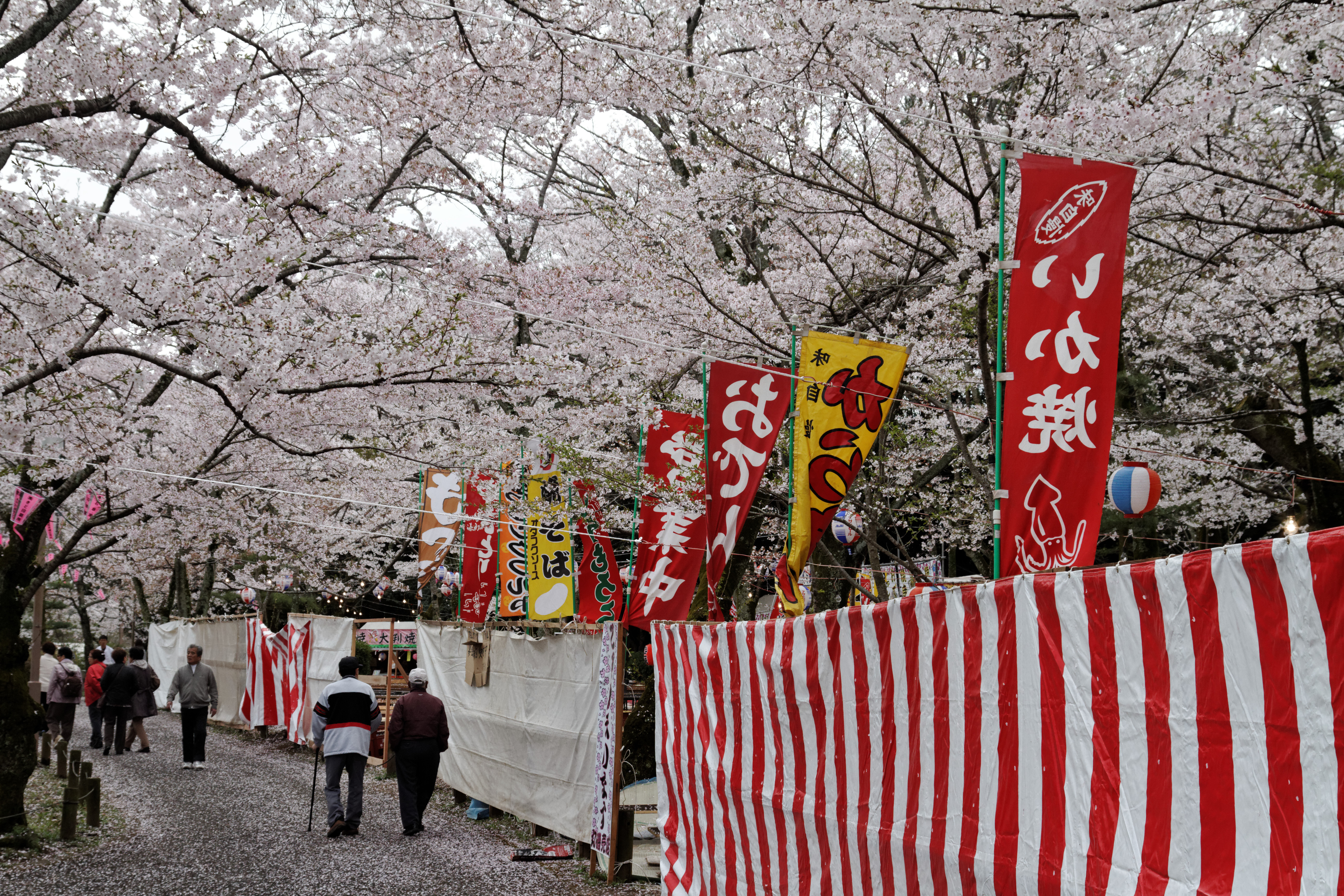 Kairakuen